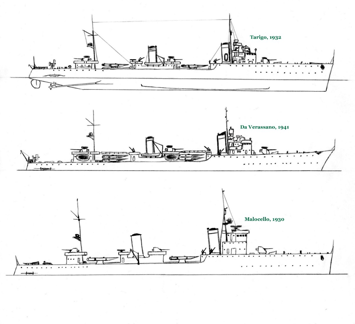 Navigatori class destroyer